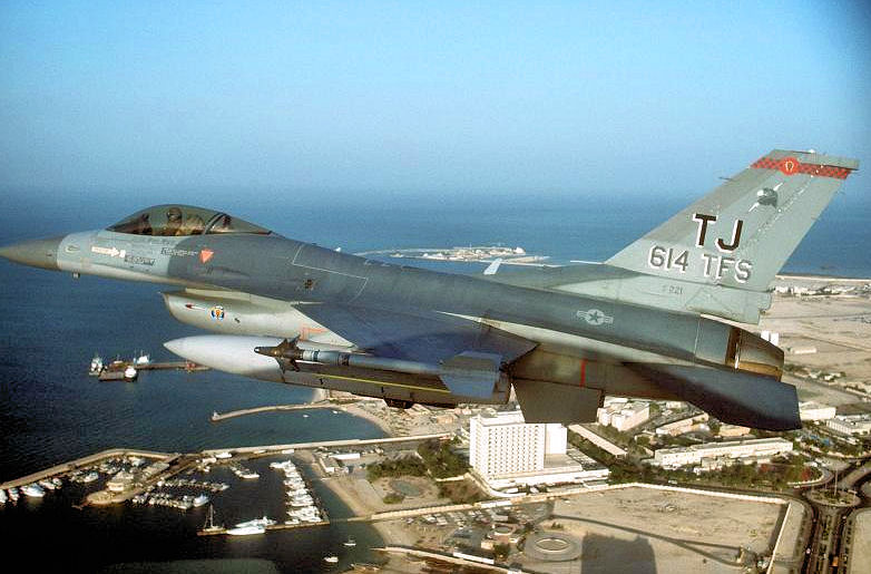 An air-to-air view of USAF F-16C block 30 #87-0221 of the 614th TFS based at Torrejon AB, photographed during Operation Desert Shield in 1991. [USAF photo by SSgt Lee Corkran]